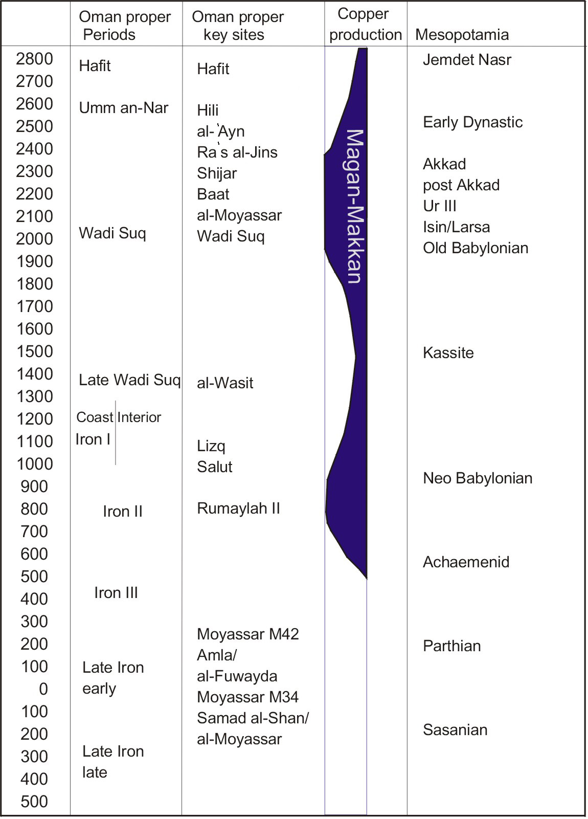 Chrnology table, Oman Proper, metals period